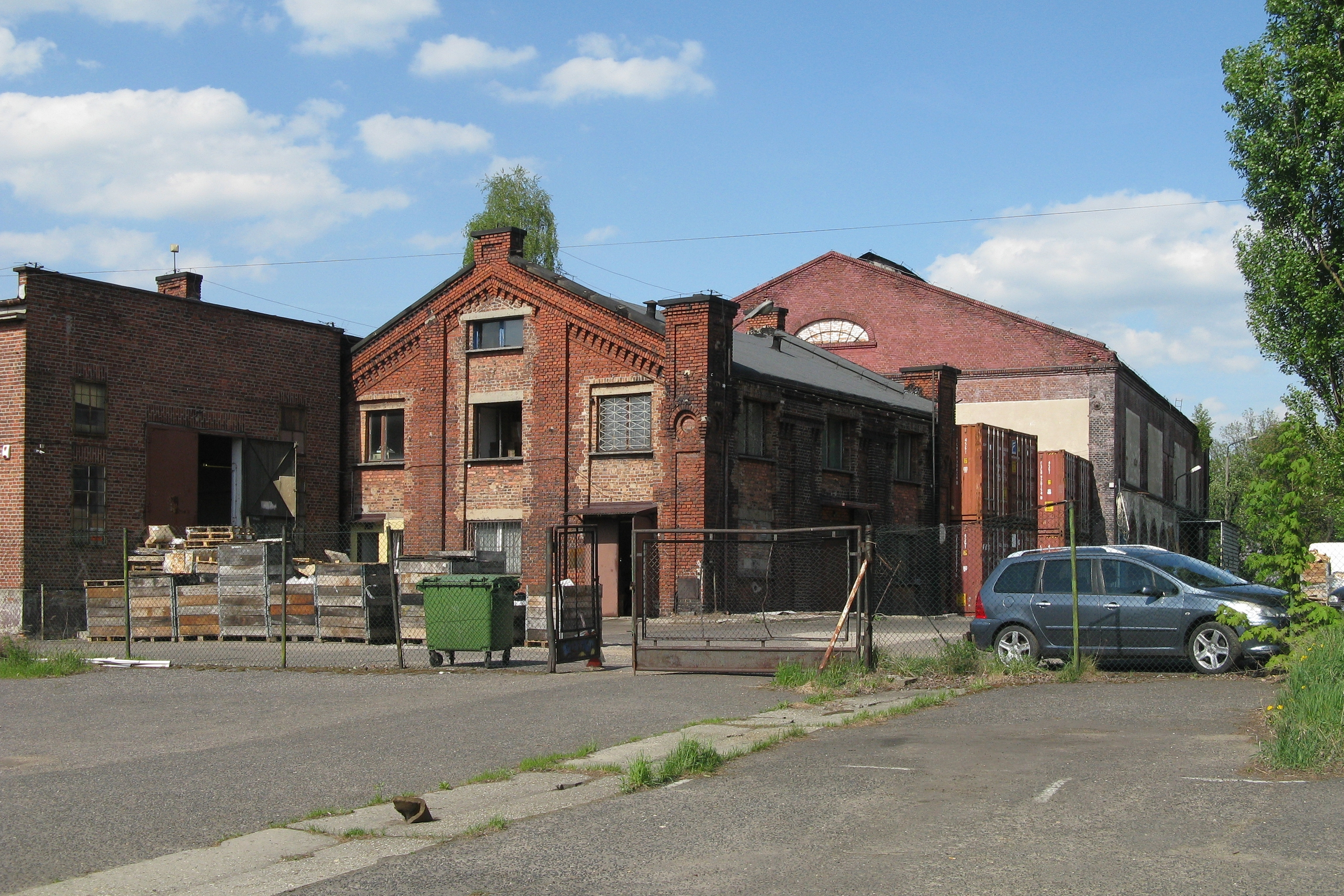 Remainings of Karol coal mine in Ruda Śląska-Orzegów, Kopalnia Karol street.